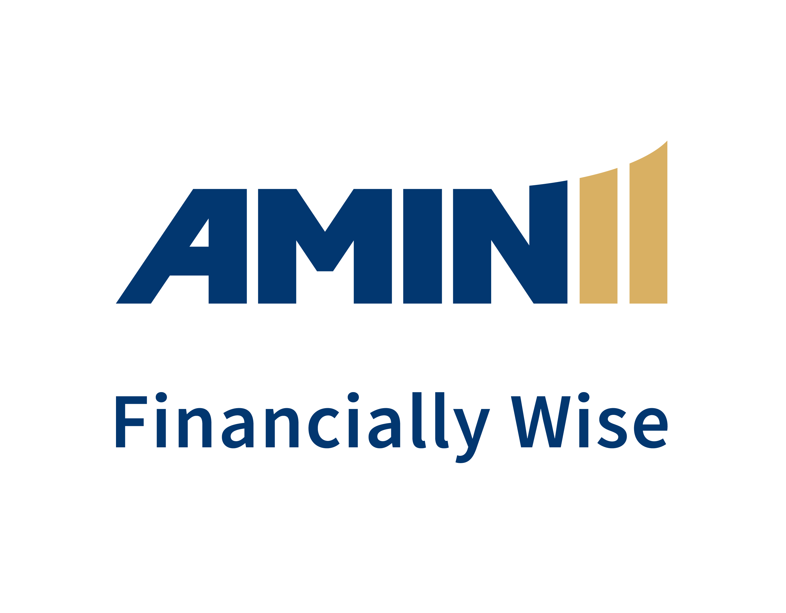 Amin Investment Bank Logo